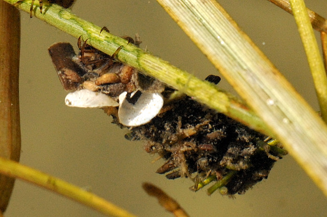 Limnephilus rhombicus from Commanster, Belgian High Ardennes .